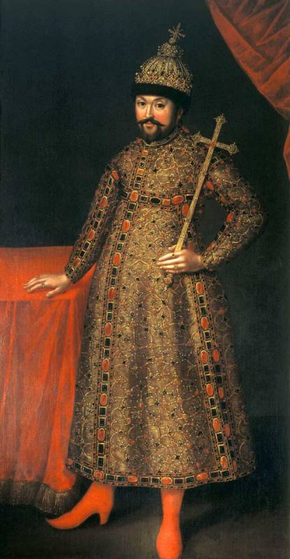 Title: Portrait of Tsar Mikhail Fyodorovich